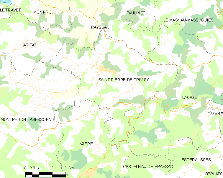 Map commune FR insee code 81267.png - Saint-Pierre-de-Trivisy